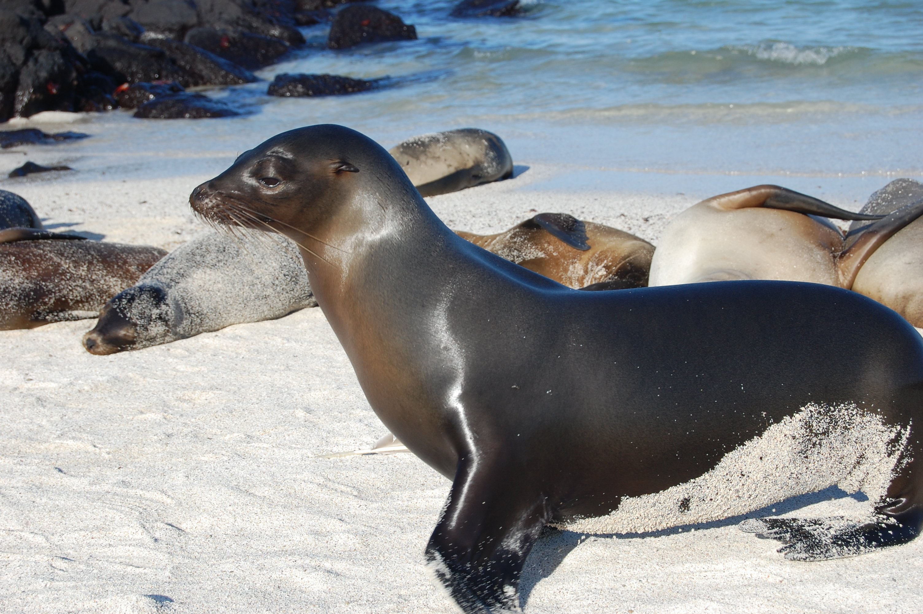 Galapagos islands sea lion (Zalophus wollebaeki)